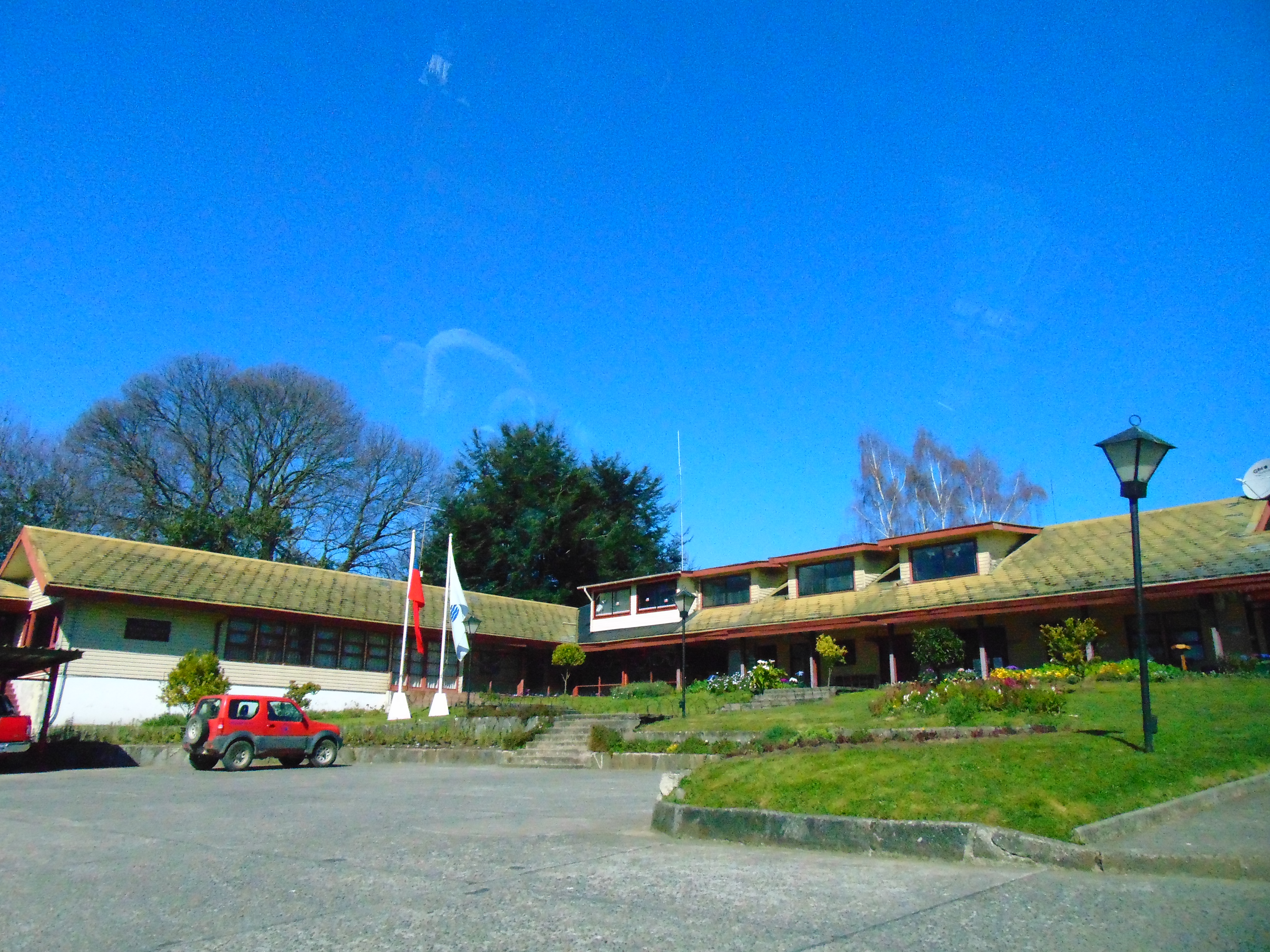 Lago Ranco City Hall